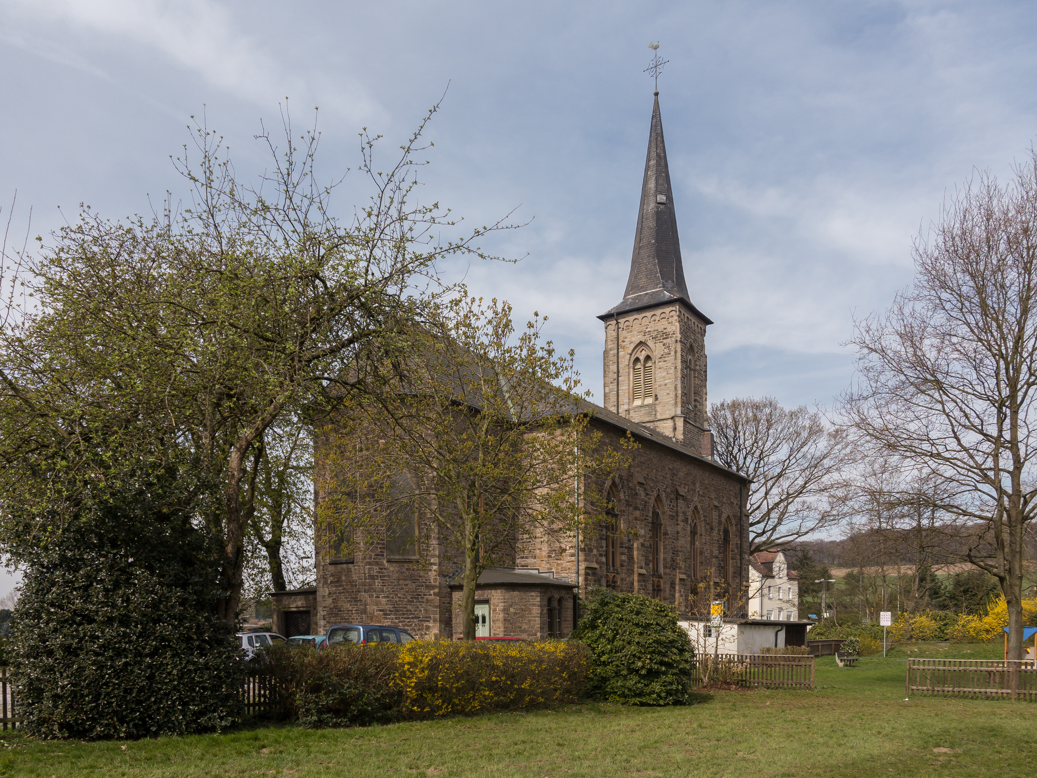 Gennebreck, reformed church: Kirche Herzkamp This is a photograph of an architectural monument.